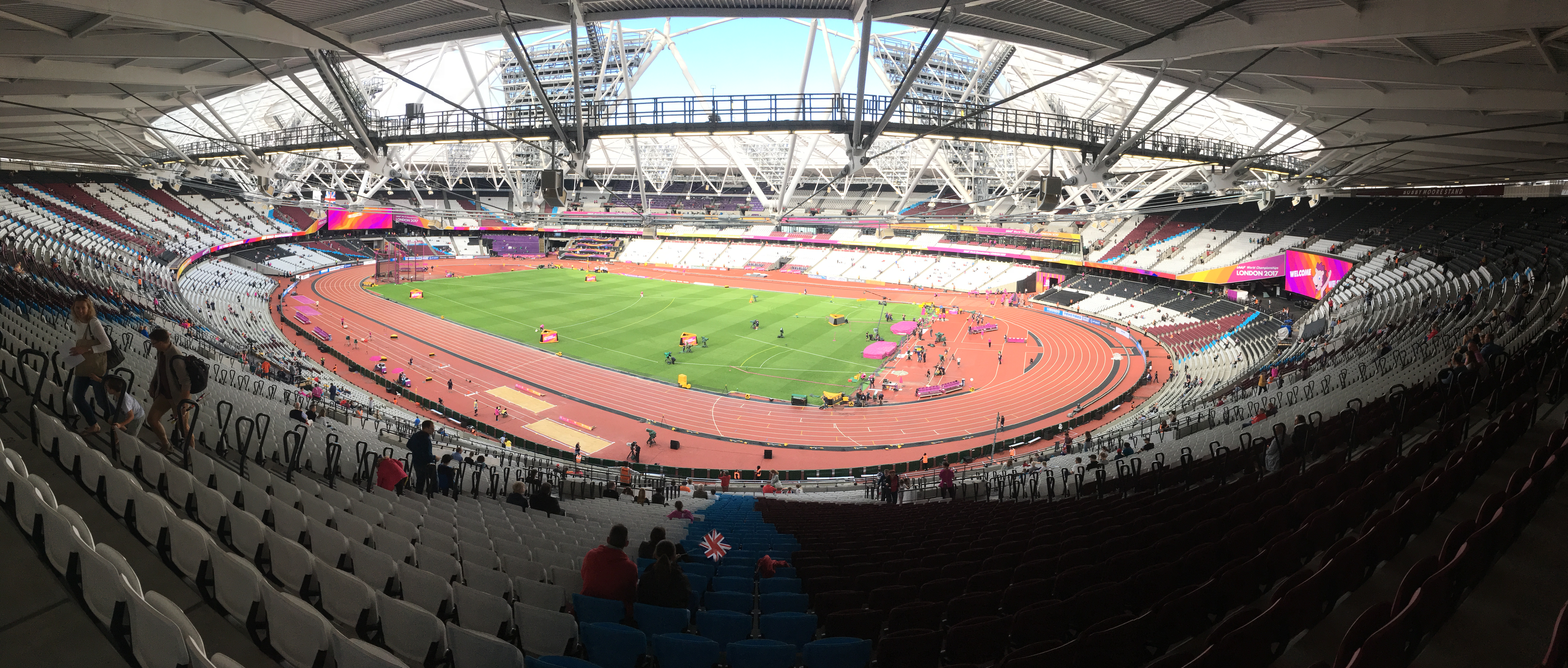 Olympic Stadium in Stratford, London – 5. August 2017